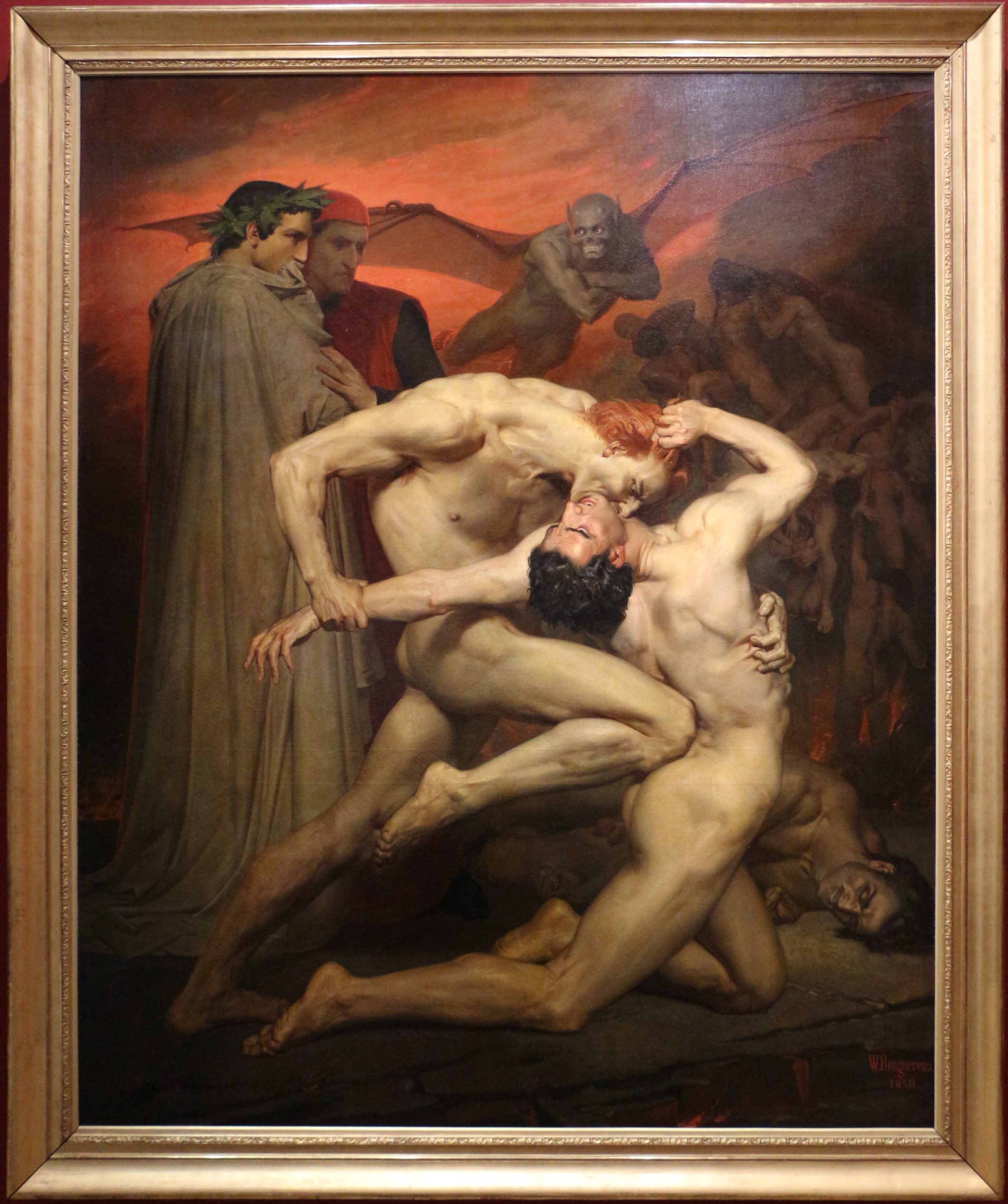 Paintings in Musée d'Orsay